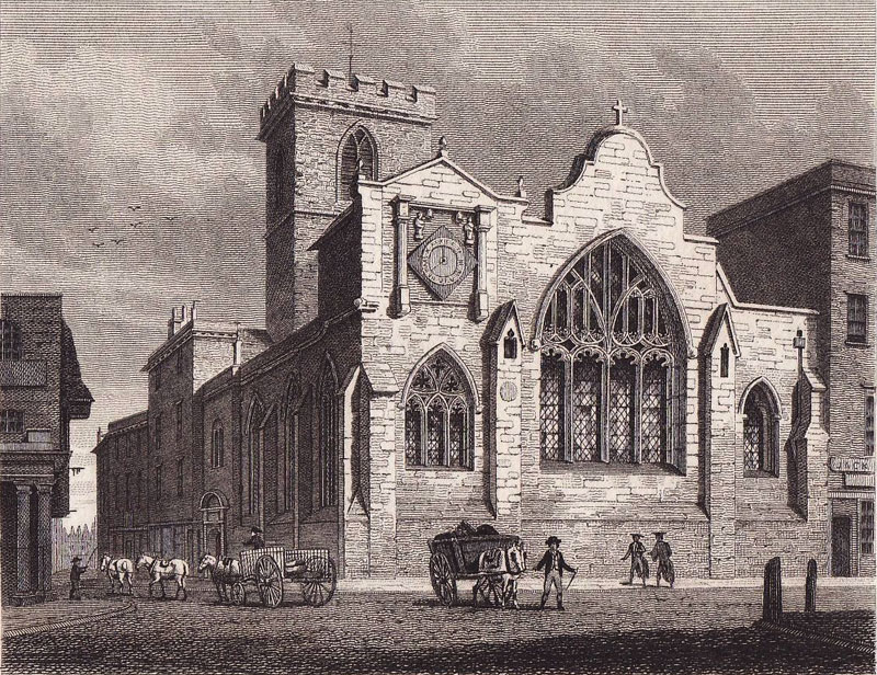 Print of the medieval St Martin's Church drawn & engraved by James Sargant Storer. The print is dated 1822, but the original drawing must have been made by 1820